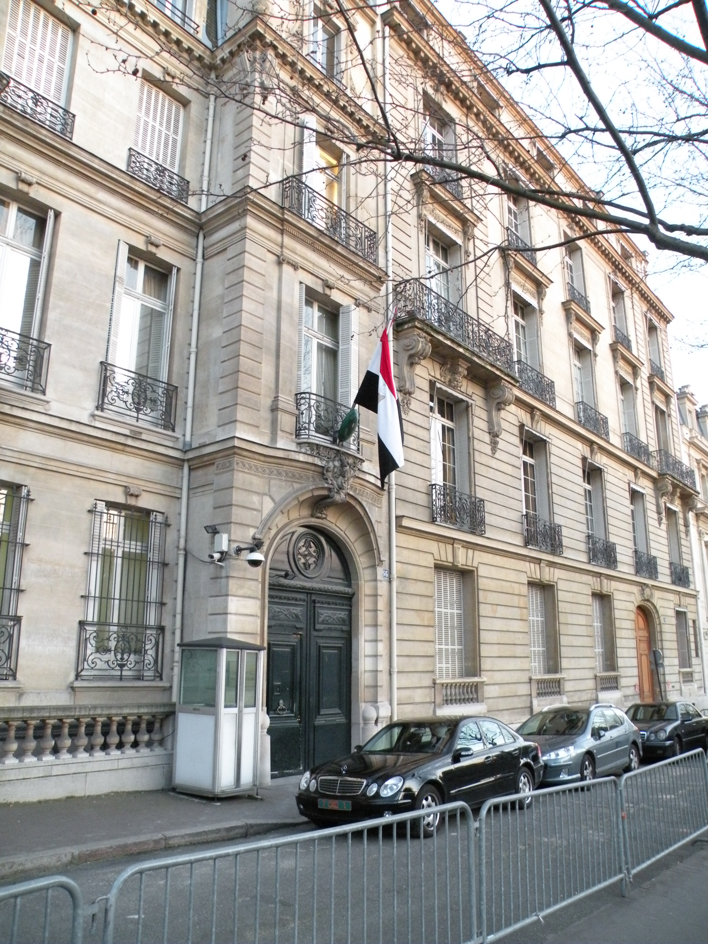 Egyptian embassy in France, 56 avenue d'Iéna, 16e arrondissement, Paris, France.